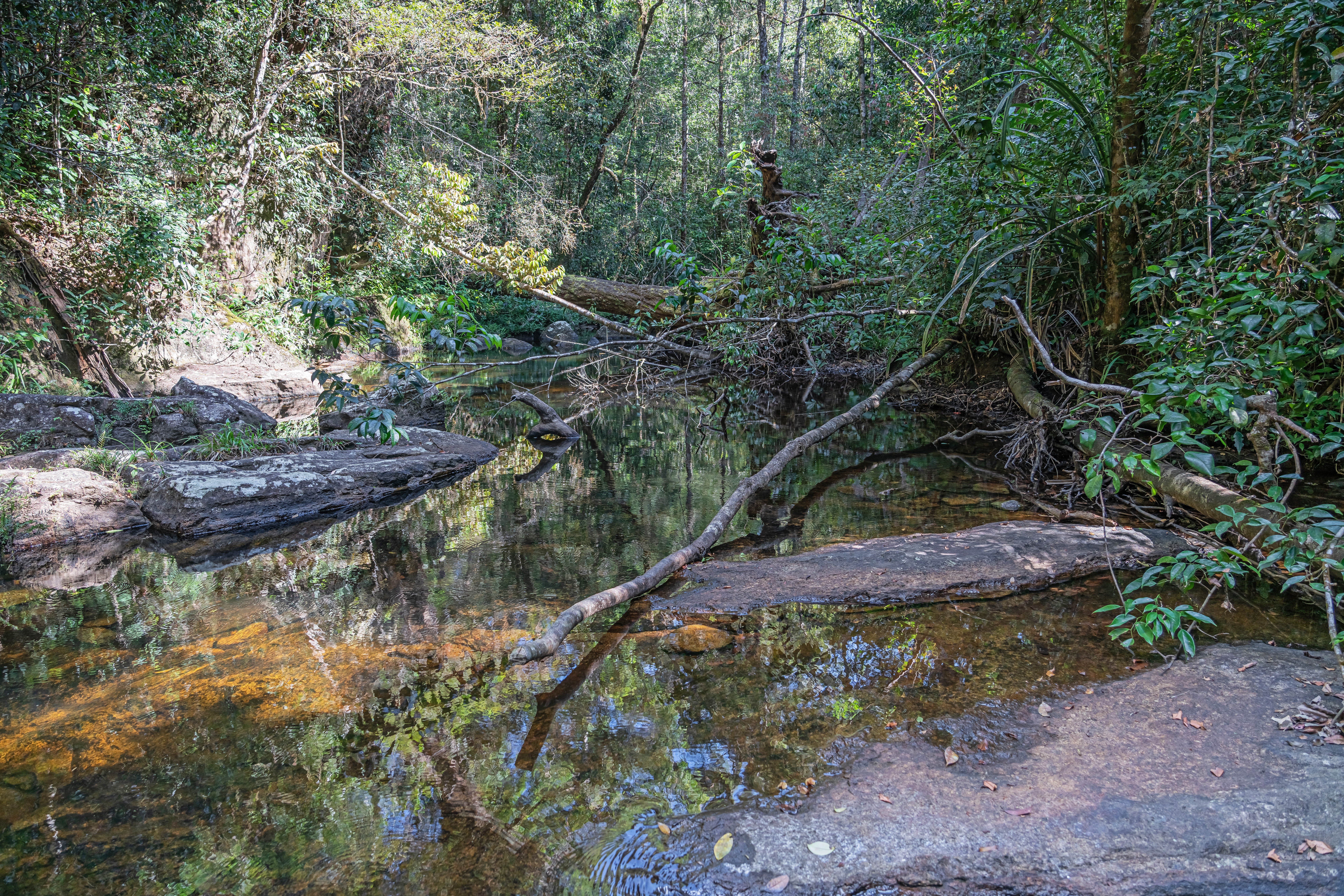 A stream in Sinharaja Rainforest near Deniyaya, Sri Lanka